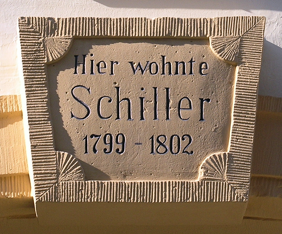 Memorial plaque, Friedrich Schiller, Windischenstraße 8, Weimar, Germany